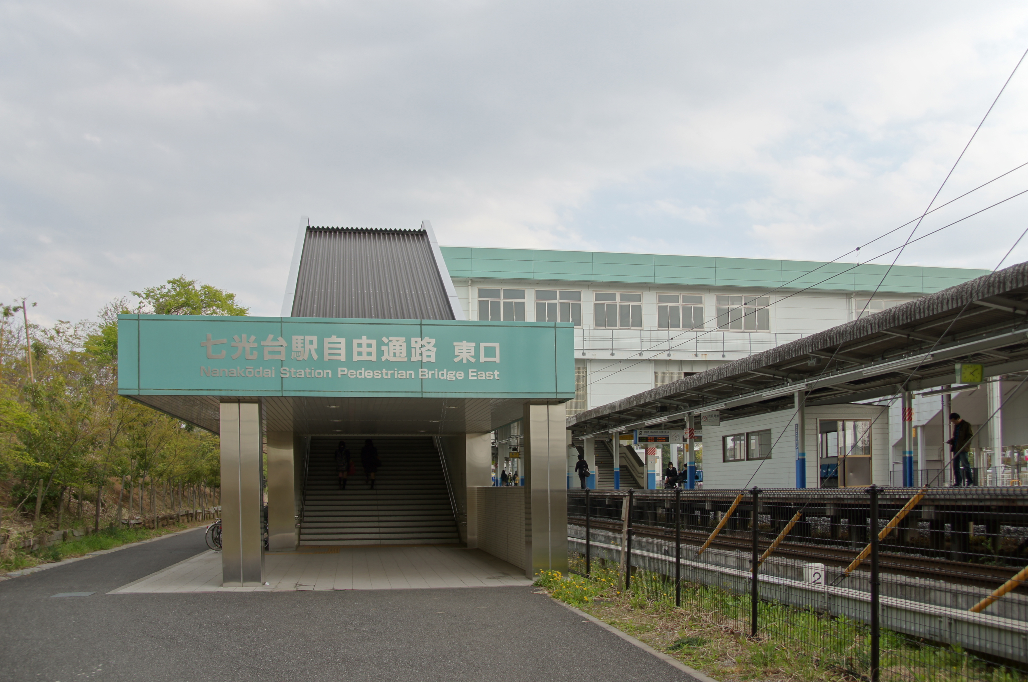 East entrance of Nanakodai Station on the Tobu Noda Line